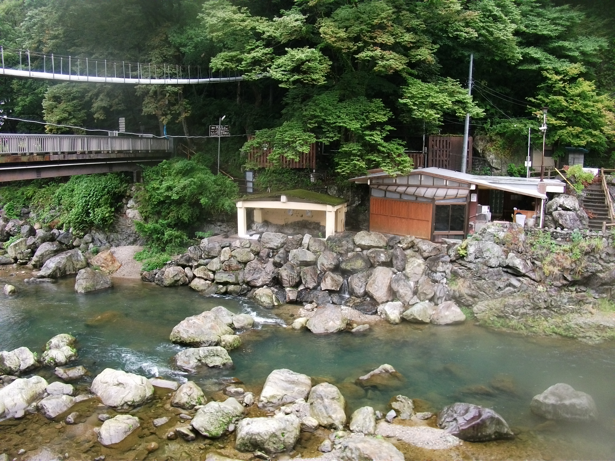 Kawaji_Hotspring,"Yakushi-no-yu"(Nikko, Tochigi, Japan)